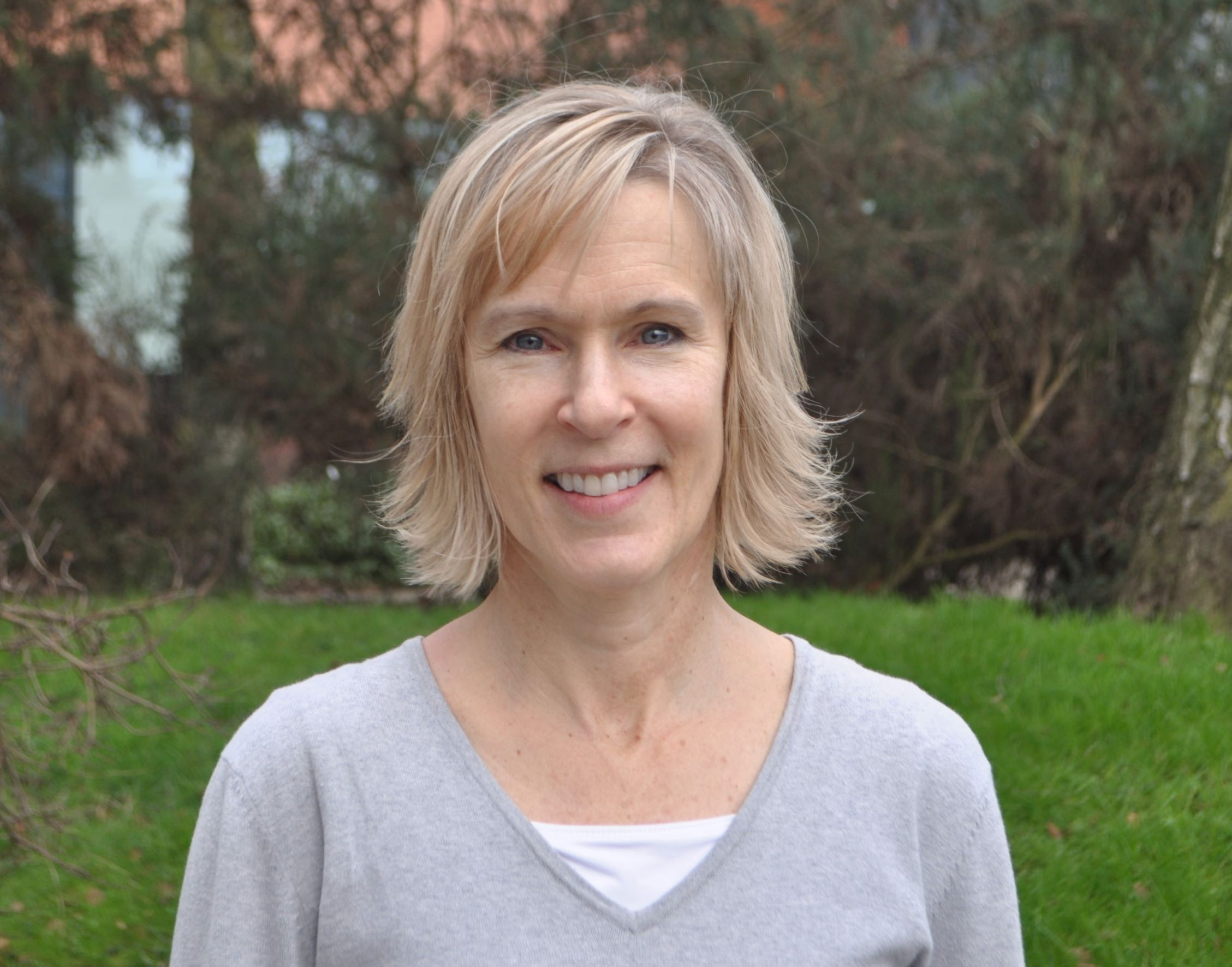 Professor Kristi Kiick, taken on a visit to the University of York, January 2020